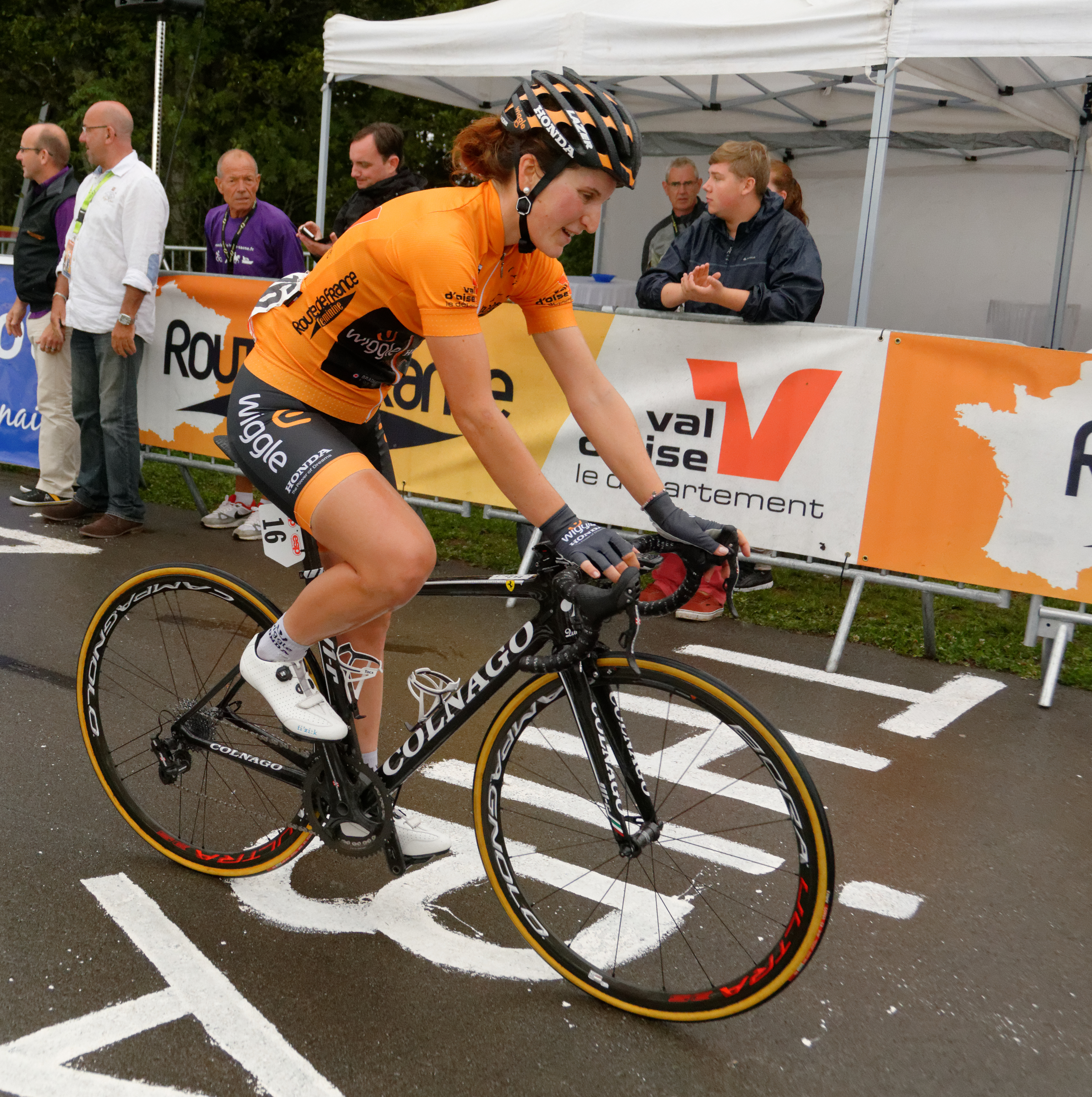 Personality rights warningAlthough this work is freely licensed or in the public domain, the person(s) shown may have rights that legally restrict certain re-uses unless those depicted consent to such uses. In these cases, a model release or other evidence of consent could protect you from infringement claims.